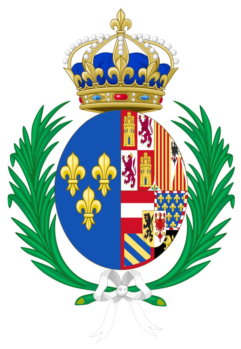 Arms of Marie Thérèse of Austria, queen of France (1660-1683). To improve if necessary.